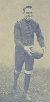 Photo of Bill McKenzie taken before 1919